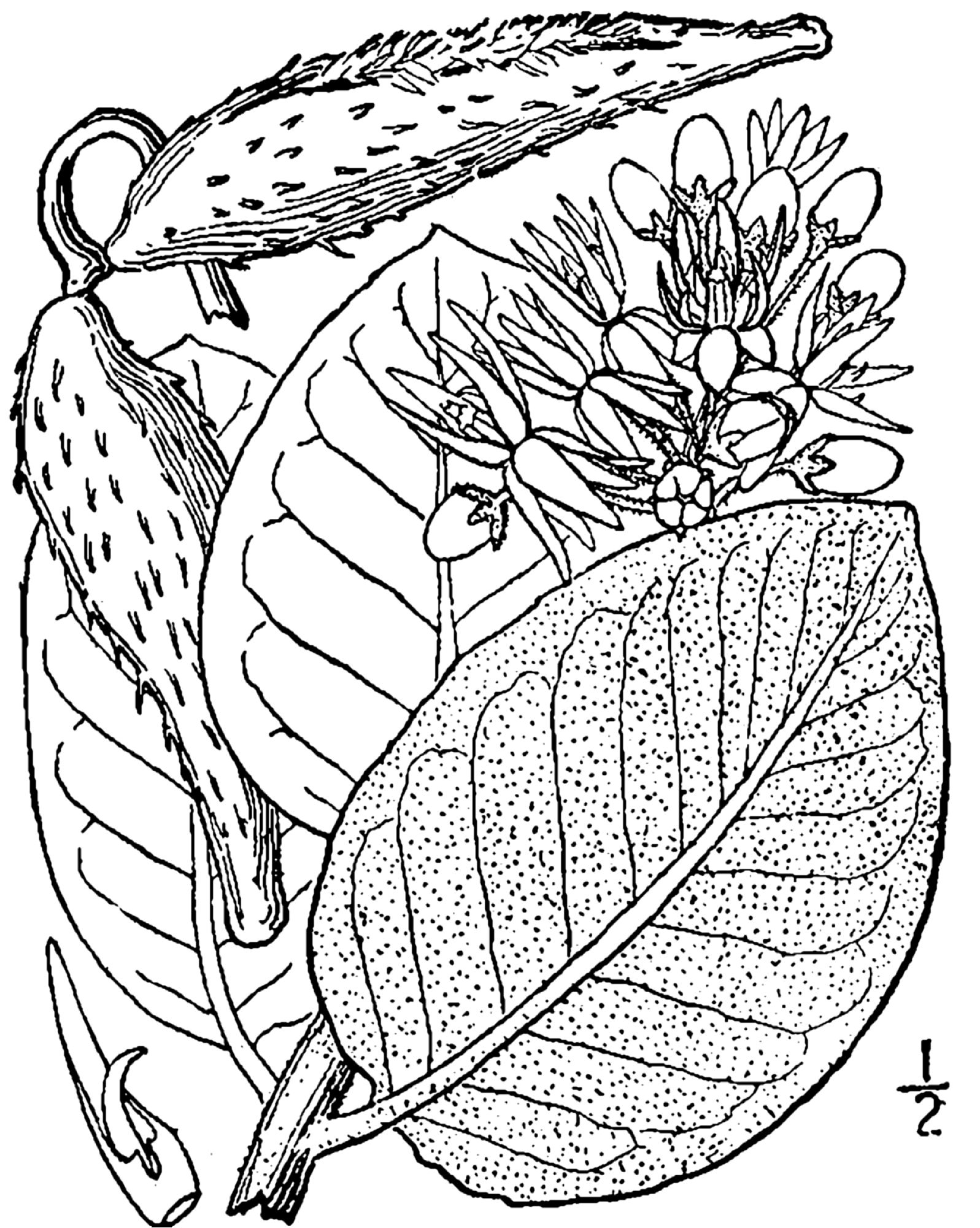 Illustration of Asclepias speciosa